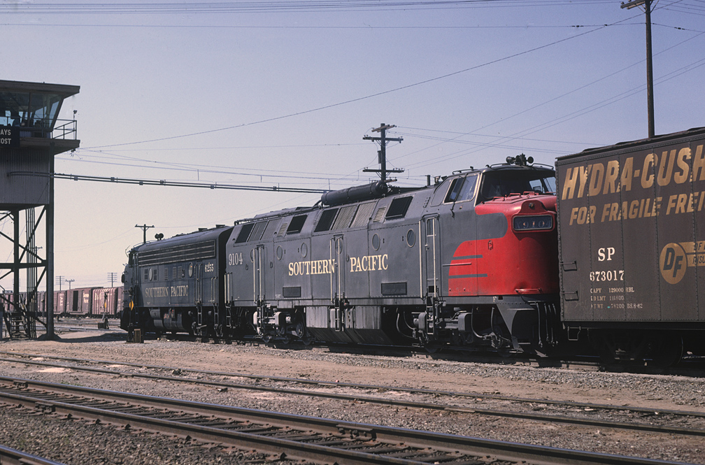 SP Diesel Hydraulic #9104 trailing F7 #6255 as they pull a freight into Newhall Yard in San Jose May 1966